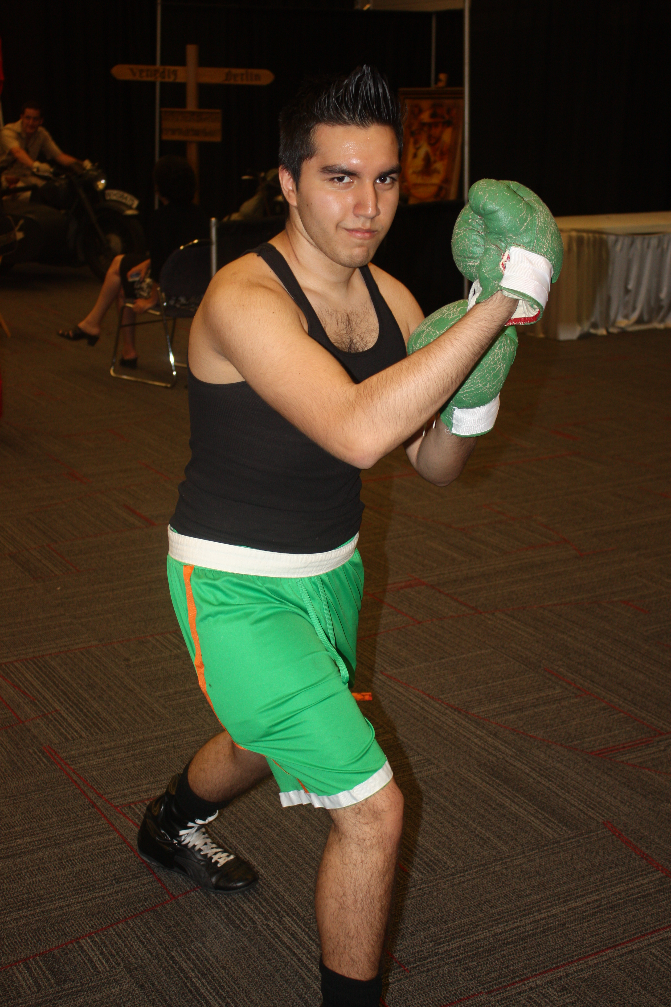 Cosplay on day three of Montreal Comiccon 2015.